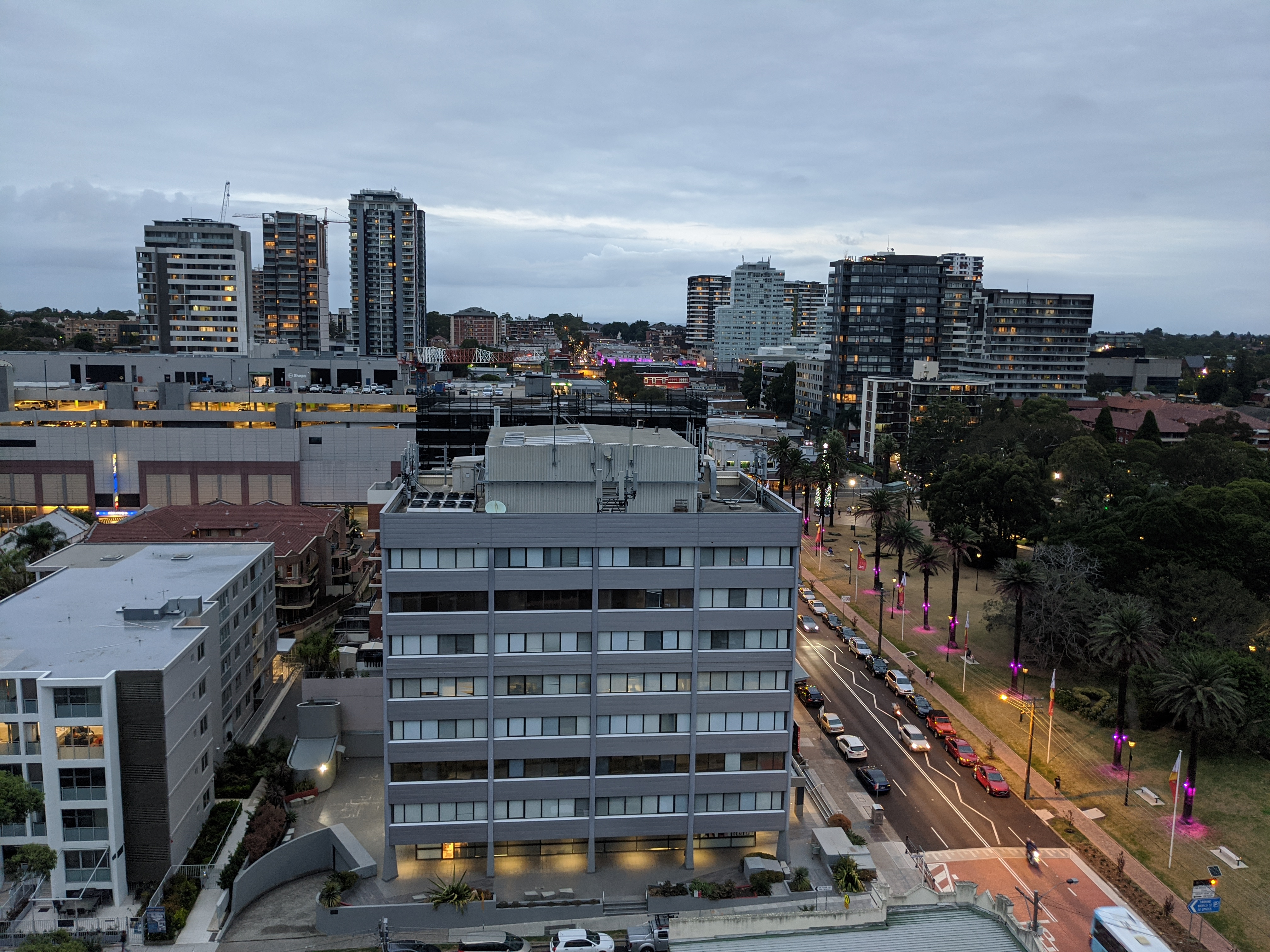 Burwood Skyline, Sydney, Australia